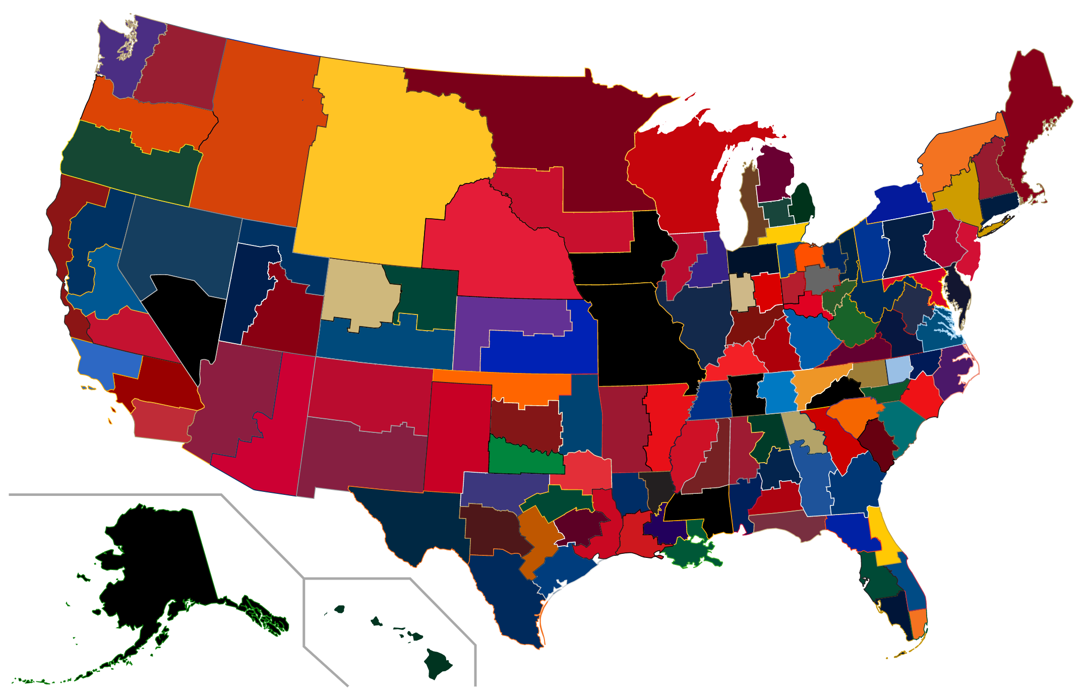 Graphic of the CFB map showing all territories.